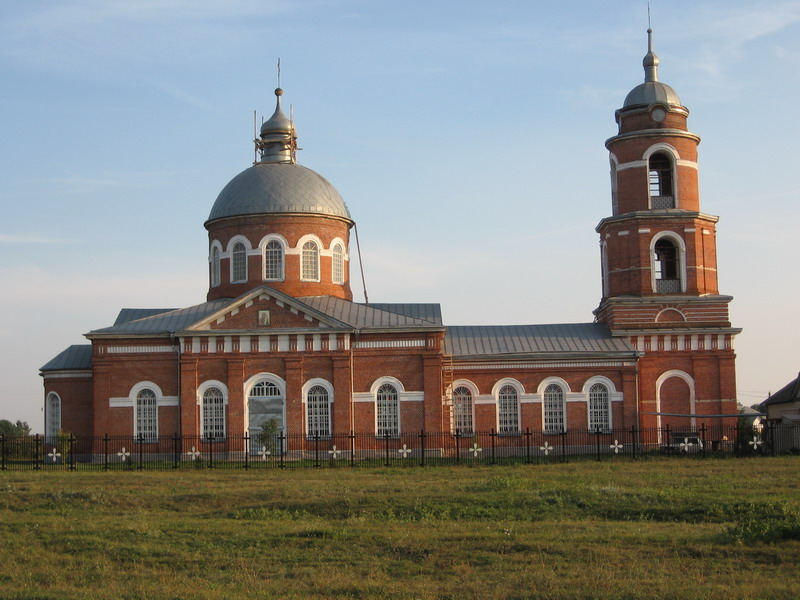 Plekhanovo (Lipetsk Oblast), Church of St. Nicholas the Wonderworker (19th century).